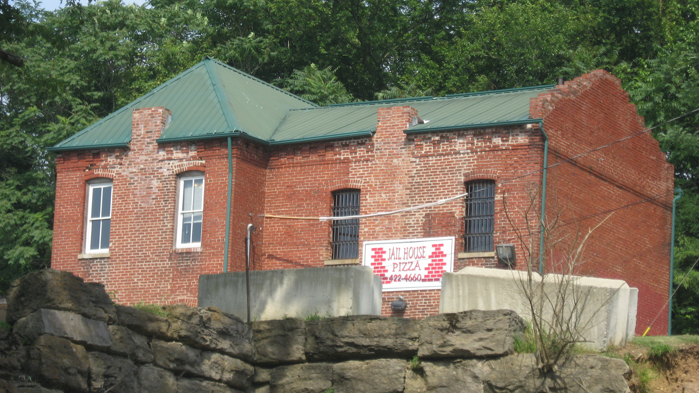 Front and southern side of the Meade County Jail, located at 125 Main Street in Brandenburg, Kentucky, United States. Built in 1906, it is listed on the National Register of Historic Places.